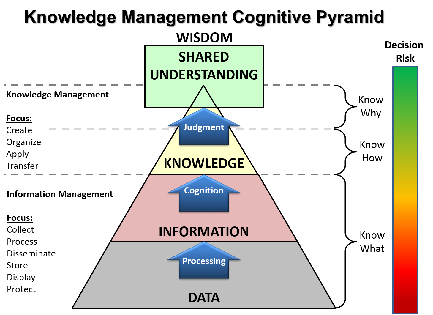 DIKW Adaptation in use within the US Army KM Community of Practice